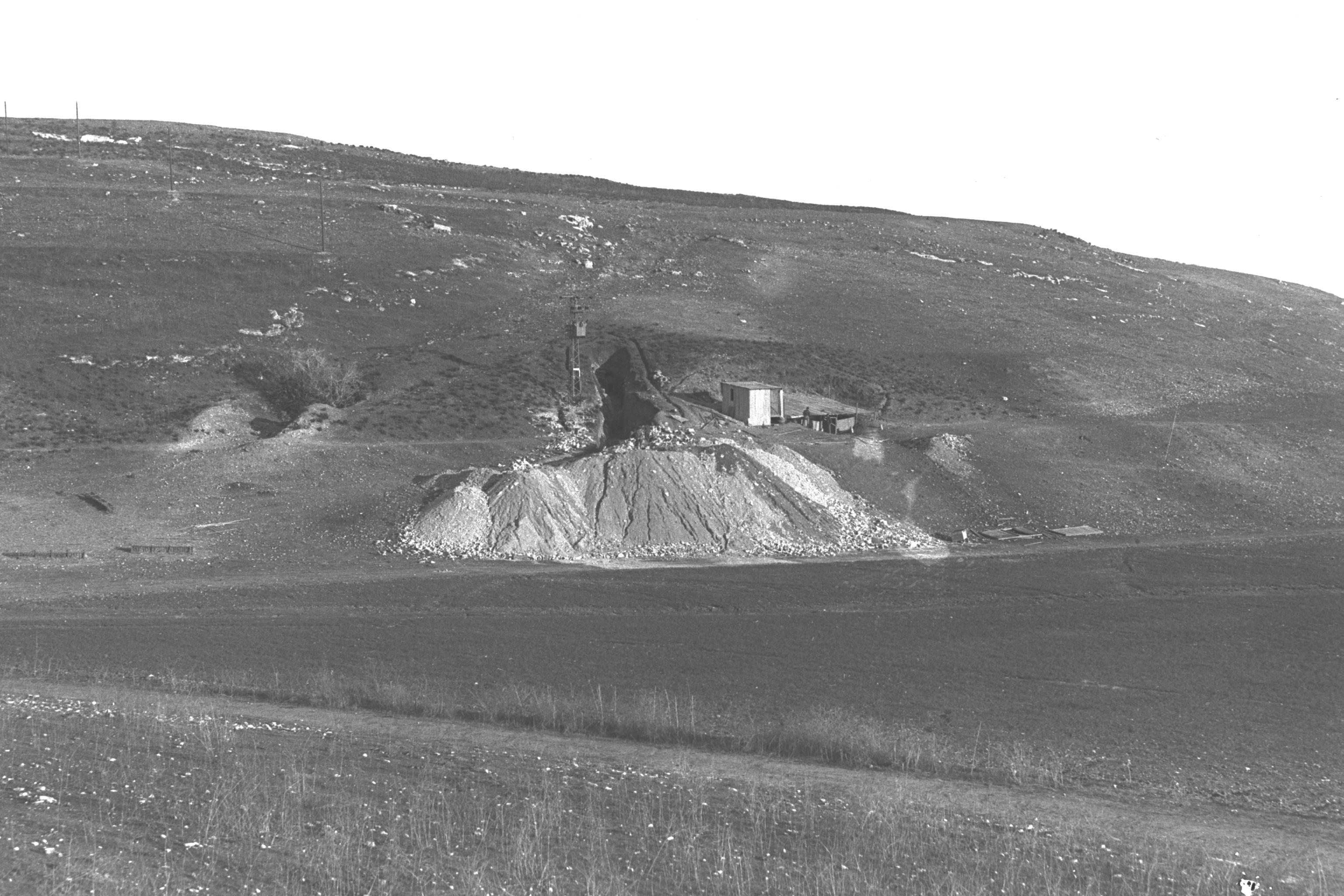 Archeological excavations of the 2nd-century catacomb city of Beit Shearim near Sheikh Abreik in the Tivon area. חפירות ארכיאולוגיות במערות הקברים מהמאה השנייה לספירה בבית שערים, ליד טבעון. Photo: Zoltan Kluger (1896–1977) Alternative names Qlwger, Zwlṭan; Zolṭan Ḳluger; Kluger, Z.; W. von Szigethy; W. Von SzighethyDescriptionHungarian-Israeli photographerDate of birth/death 8 February 1896 16 May 1977Location of birth/death Kecskemét ManhattanAuthority control : Q7035699 VIAF: 19504001 ISNI: 0000 0000 6686 1613 ULAN: 500483392 LCCN: no2008144265 Open Library: OL6614008A WorldCat creator QS:P170,Q7035699 , 03/30/1936